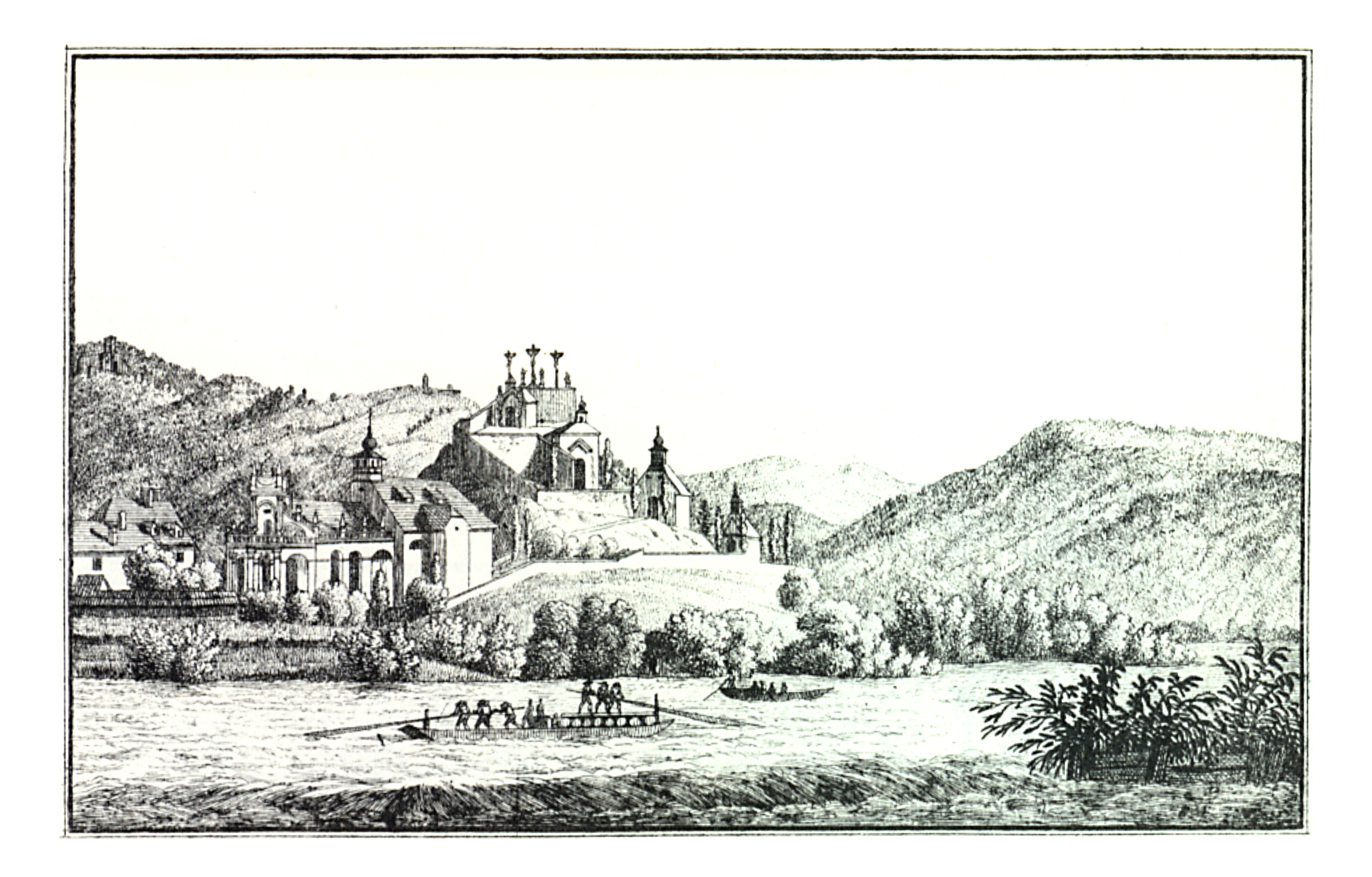 J. F. Kaiser - lithographirte Ansichten der Steyermärkischen Städte, Märkte und Schlösser, Graz 1824-1833 Joseph Franz Kaiser (1786–1859) Alternative names J. F. KaiserDescriptionAustrian printer and editorDate of birth/death 11 March 1786 19 September 1859Location of birth/death Graz (Styria) GrazAuthority control : Q1499963 VIAF: 30629353 ISNI: 0000 0000 3083 0153 LCCN: n87141671 GND: 129880159 NLP: A24960305 WorldCat creator QS:P170,Q1499963 . Scanprojekt Community Projektbudget 2012 This scan or this PDF-file was created within the GLAM-project Bookscanning, supported by Wikimedia Germany and Wikimedia Austria as a part of the community-project to capture books, documents and pictures which are not eligible to copyright or for which the copyright has expired. This document describes or depicts an object which is located in Austria today. Send requests for uncompressed scans to Hubertl. This work is in the public domain in its country of origin and other countries and areas where the copyright term is the author's life plus 100 years or less. You must also include a United States public domain tag to indicate why this work is in the public domain in the United States. This file has been identified as being free of known restrictions under copyright law, including all related and neighboring rights.